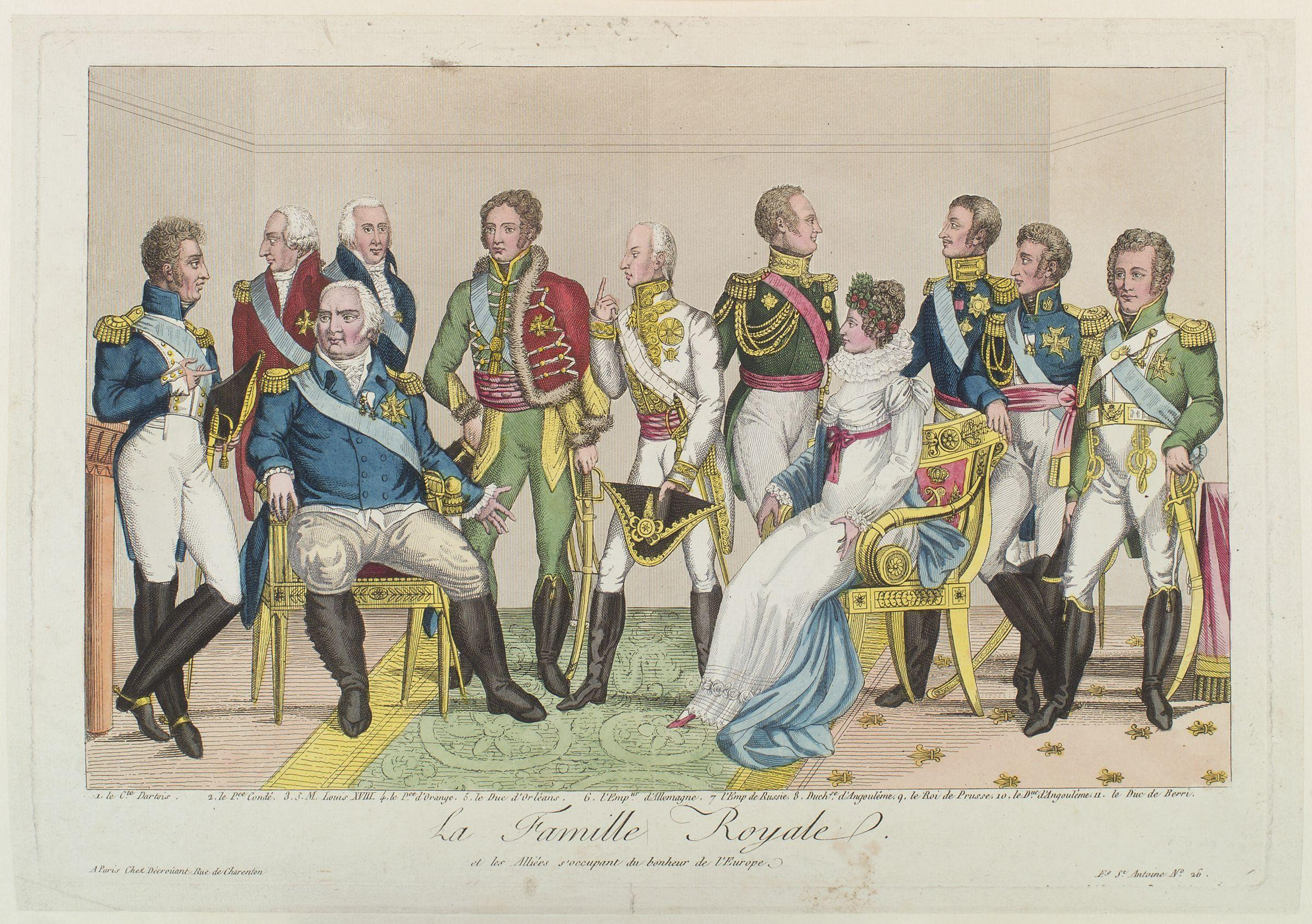 All images in this batch have been evaluated manually for evidence that the artist probably died before 1939, or that the work is anonymous or pseudonymous and was probably published before 1923. From portrait set "Madame D'Arblay Diary, 1778-1840 (volume 6, part 1)", so published prior to 1840, anonymous artist presumed dead by 1923.